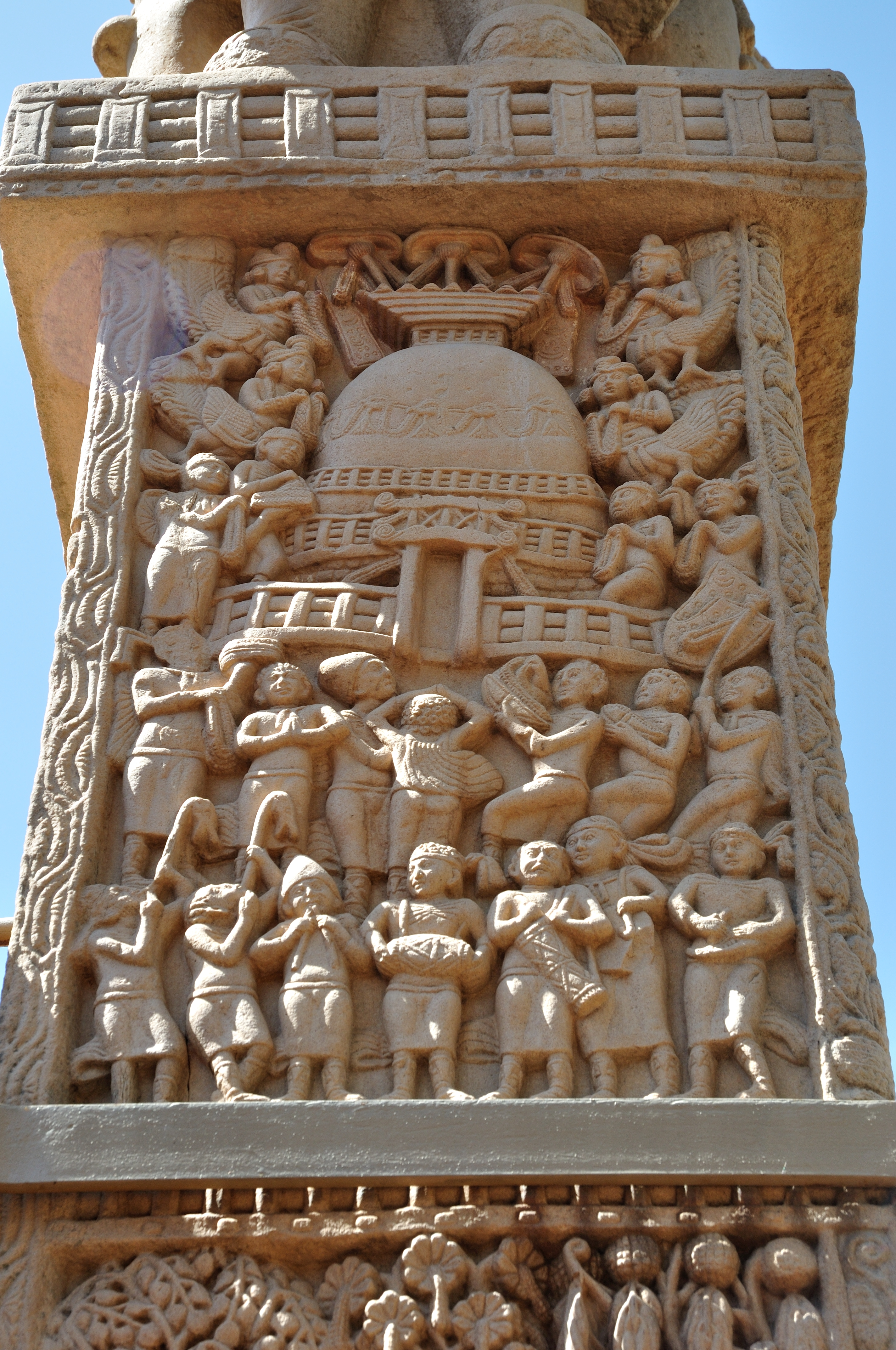 Buddhist monument at the Sanchi Hill, Raisen district of the state of Madhya Pradesh, India.